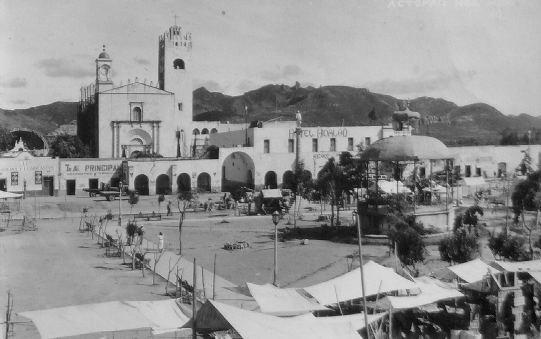 Actopan hacia 1950.